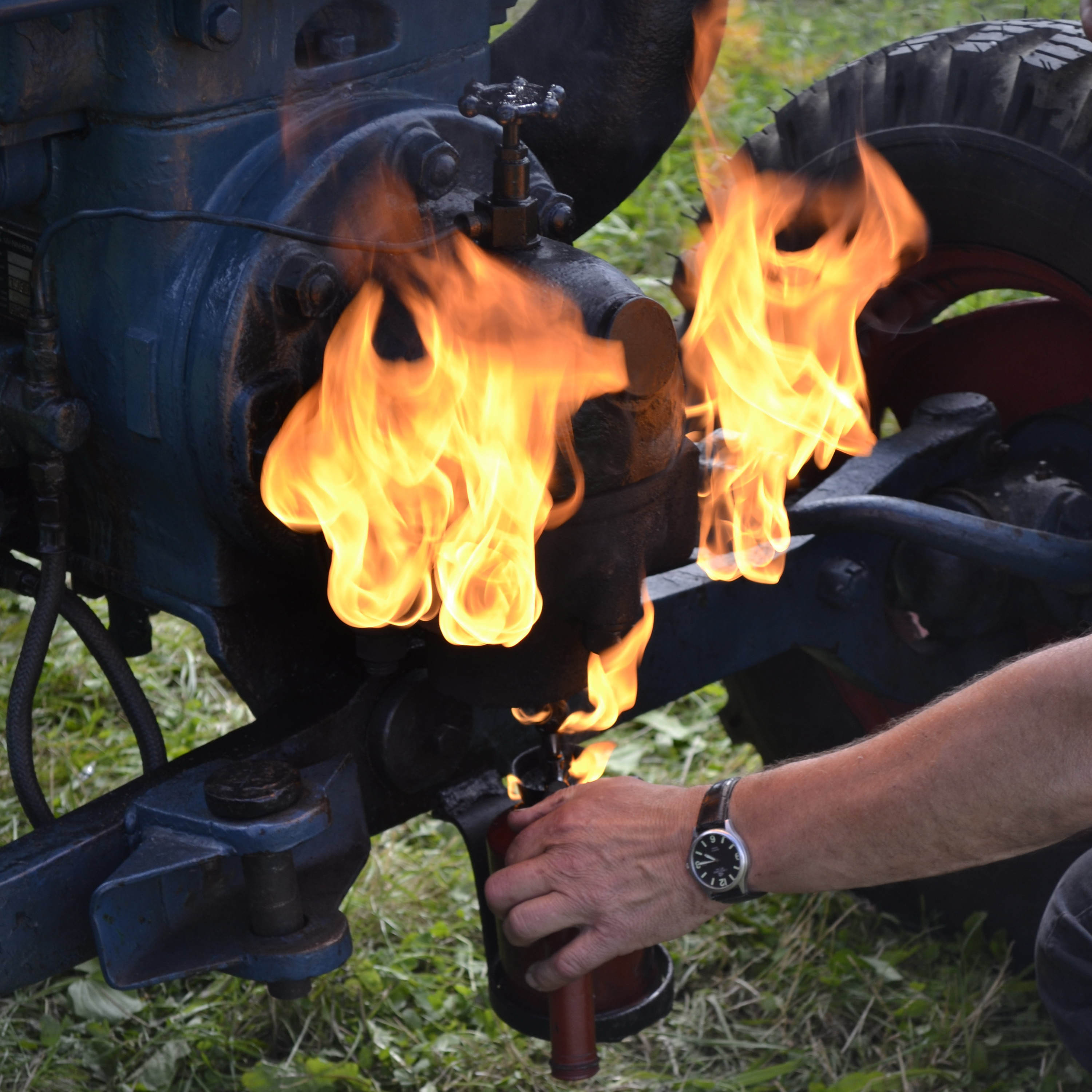 A Lanz Bulldog gets started.